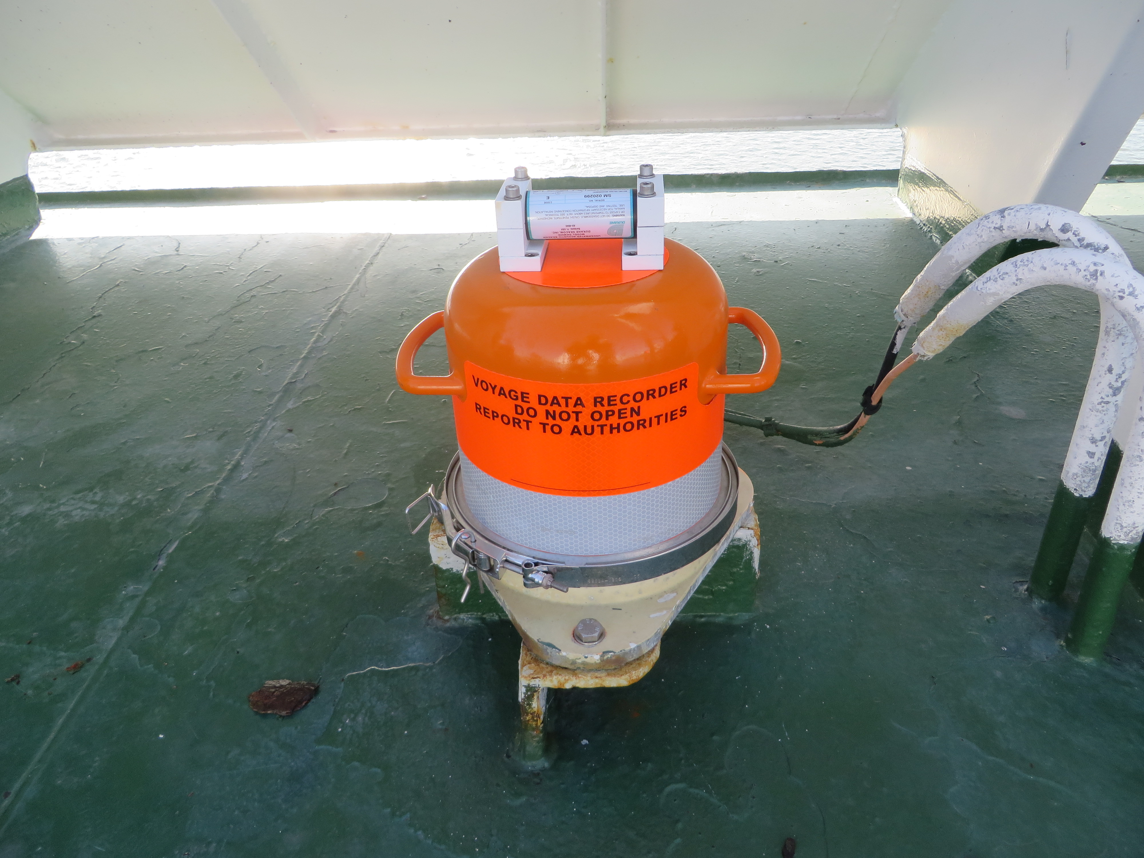 The protective capsule (or final recording media) of a voyage data recorder on M/V Barfleur.